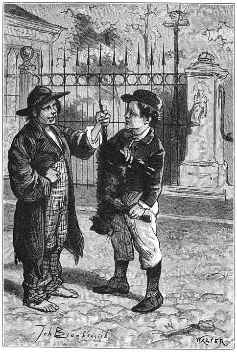 Picture from Mark Twain's Dutch translation 'De Lotgevallen van Tom Sawyer'